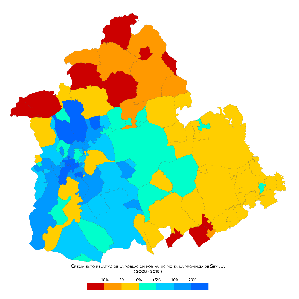 Population growth en the province of Seville (Spain) between 2008 and 2018